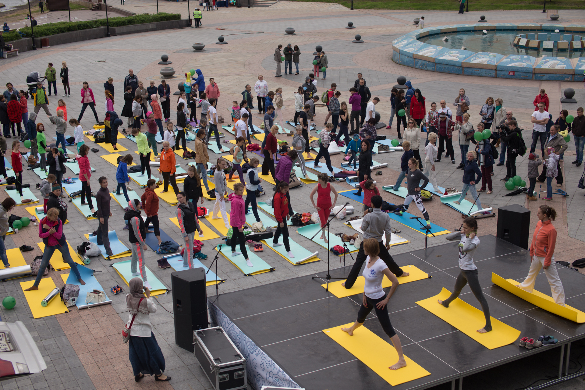 Second international Yoga day in Vladivostok, Russia